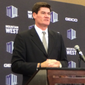 Craig Thompson, Commissioner of the Mountain West Conference, at the 2016 Mountain West Conference Media Days in the The Cosmopolitan in Las Vegas.